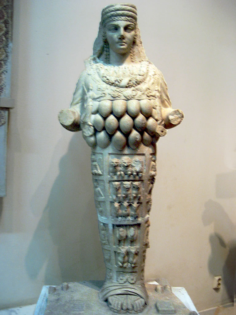 A statue of Artemis found in 1912 near the amphitheater in Leptis Magna, now in the National Museum, Tripoli.